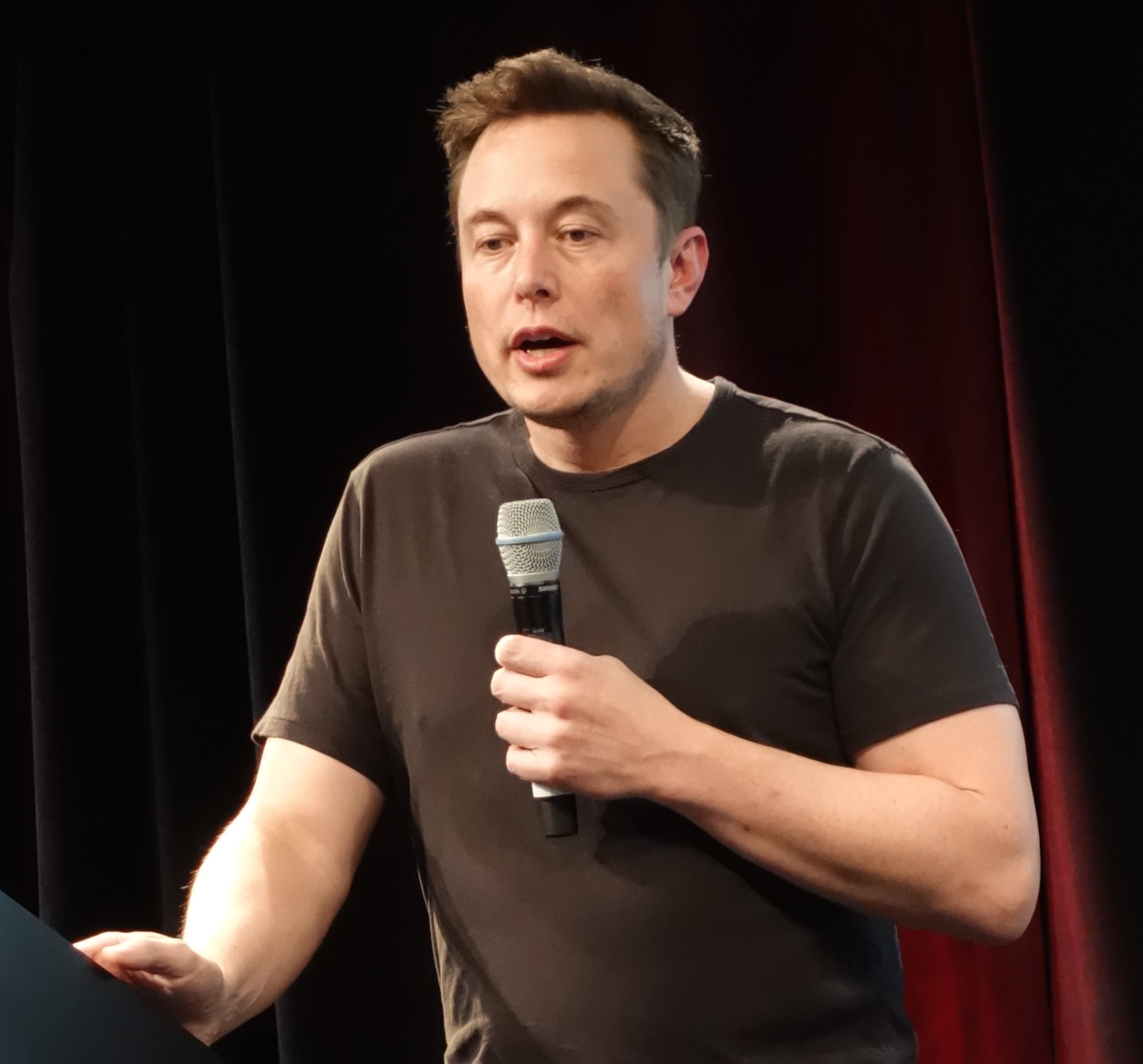 Elon Musk Closing the 2016 Tesla Annual Shareholders' Meeting